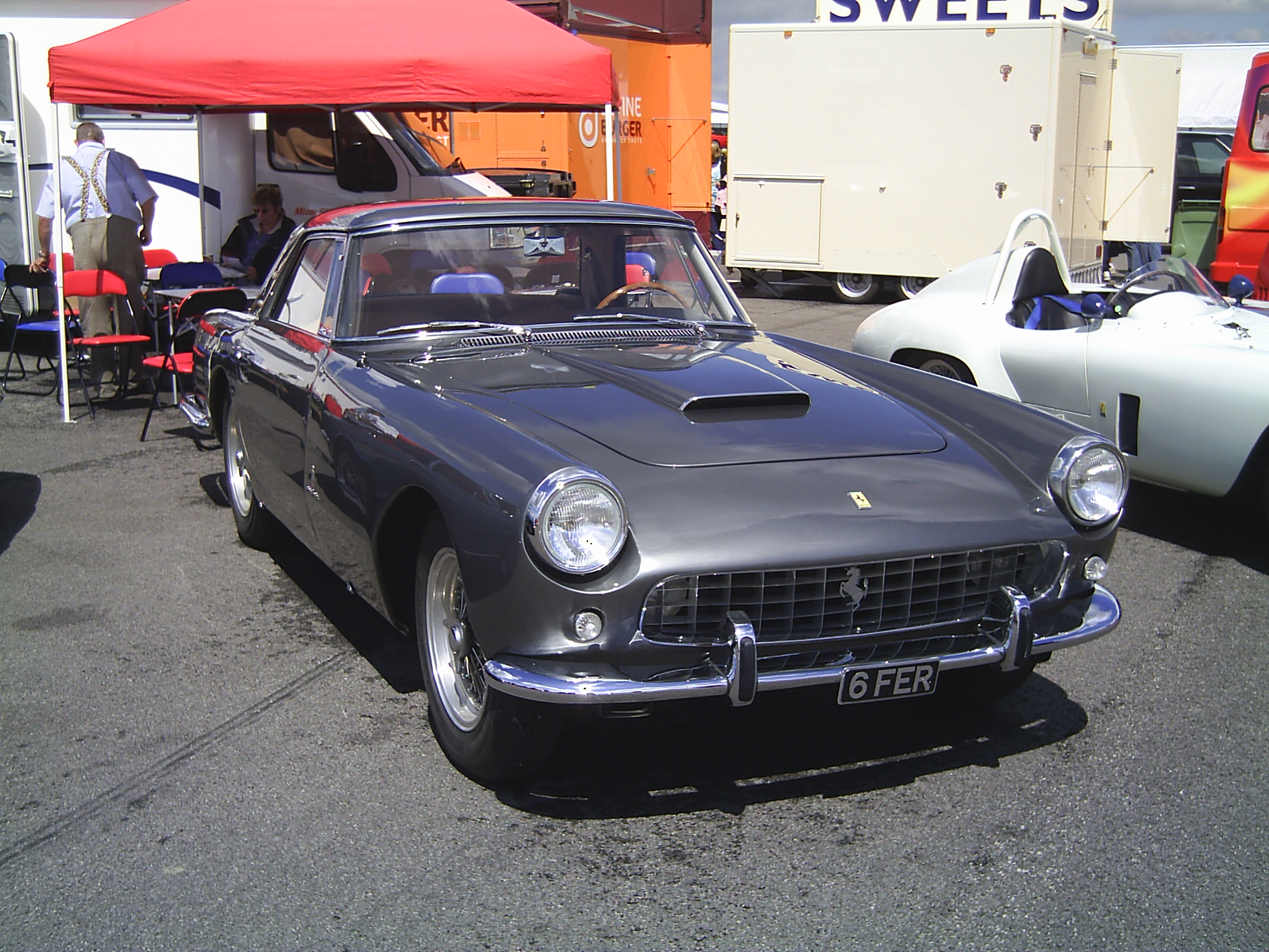 1959 Ferrari 250 GT Coupe Pininfarina chassis #1479GT.[1]